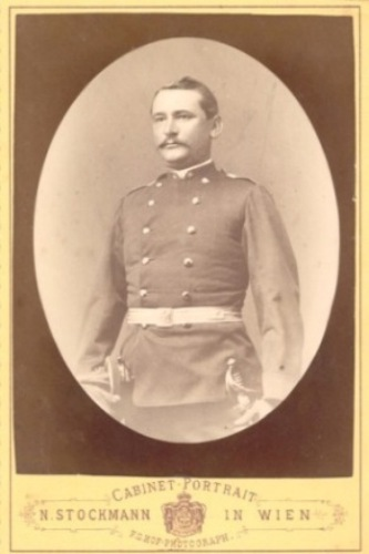 Potporučnik Mihailo Katanić